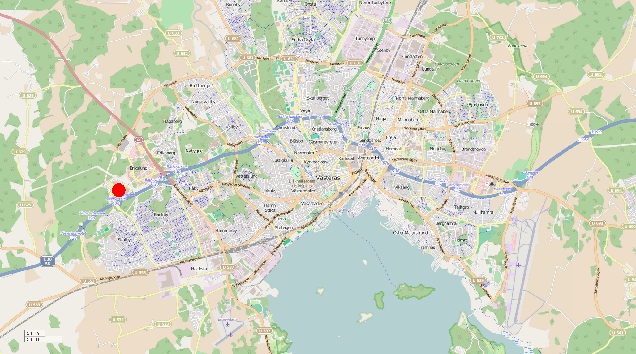 Erikslund Shopping Center location in Vasteras, Sweden